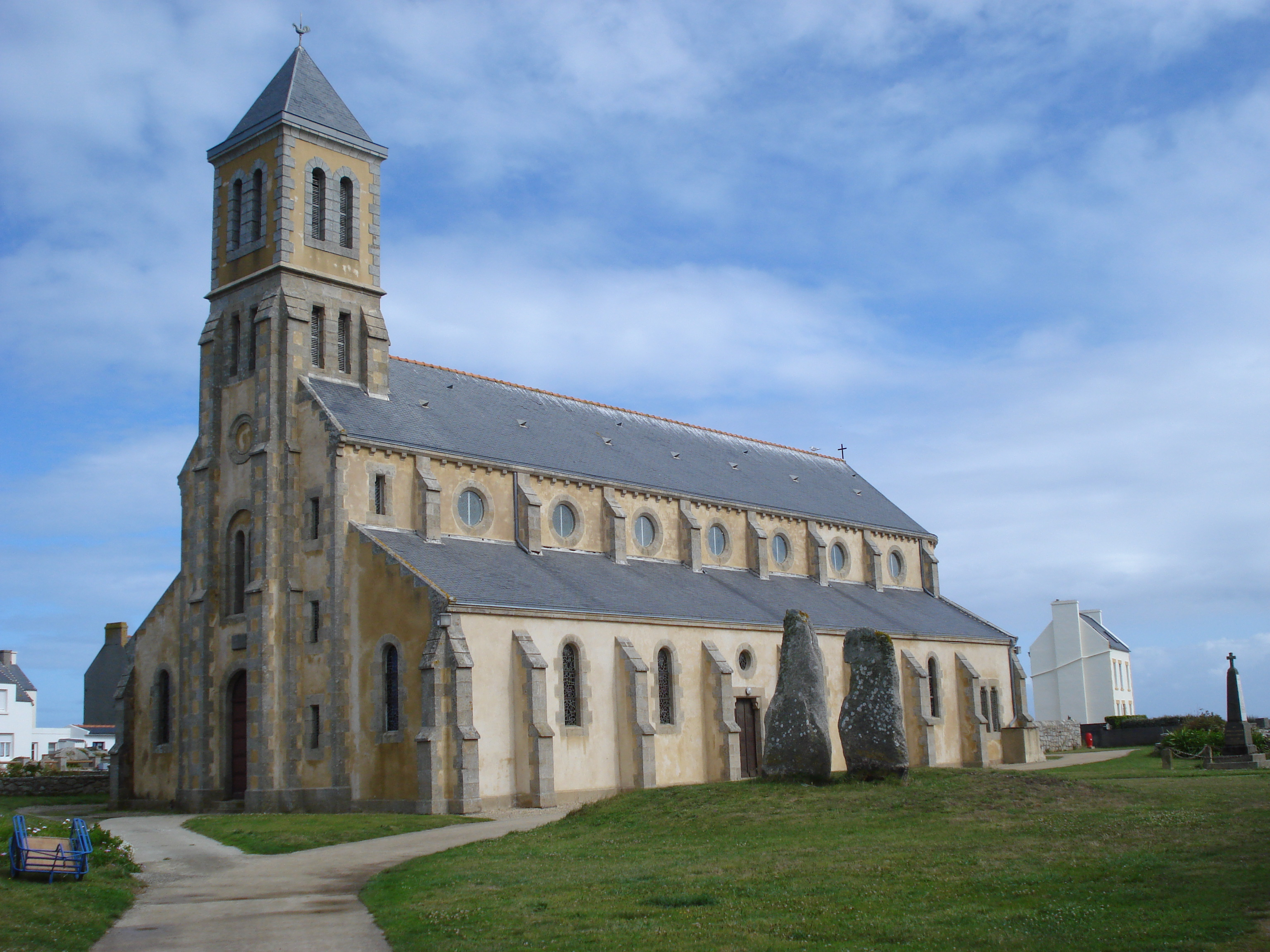 church of Iland of Sein .